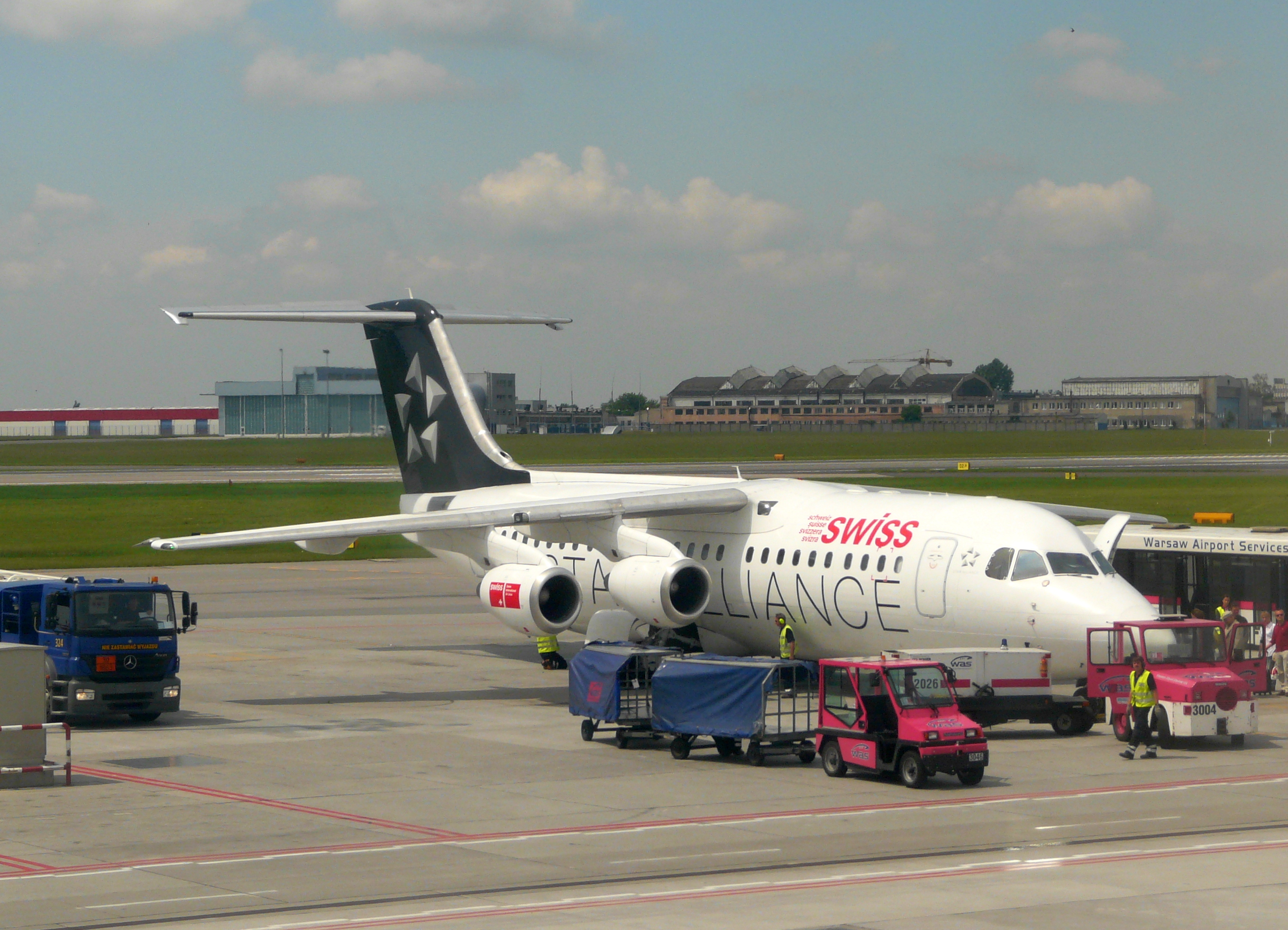 An Avro RJ100 of Swiss (registration HB-IYU or HB-IYV) at Warsaw Airport. The aircraft is in Star Alliance livery.